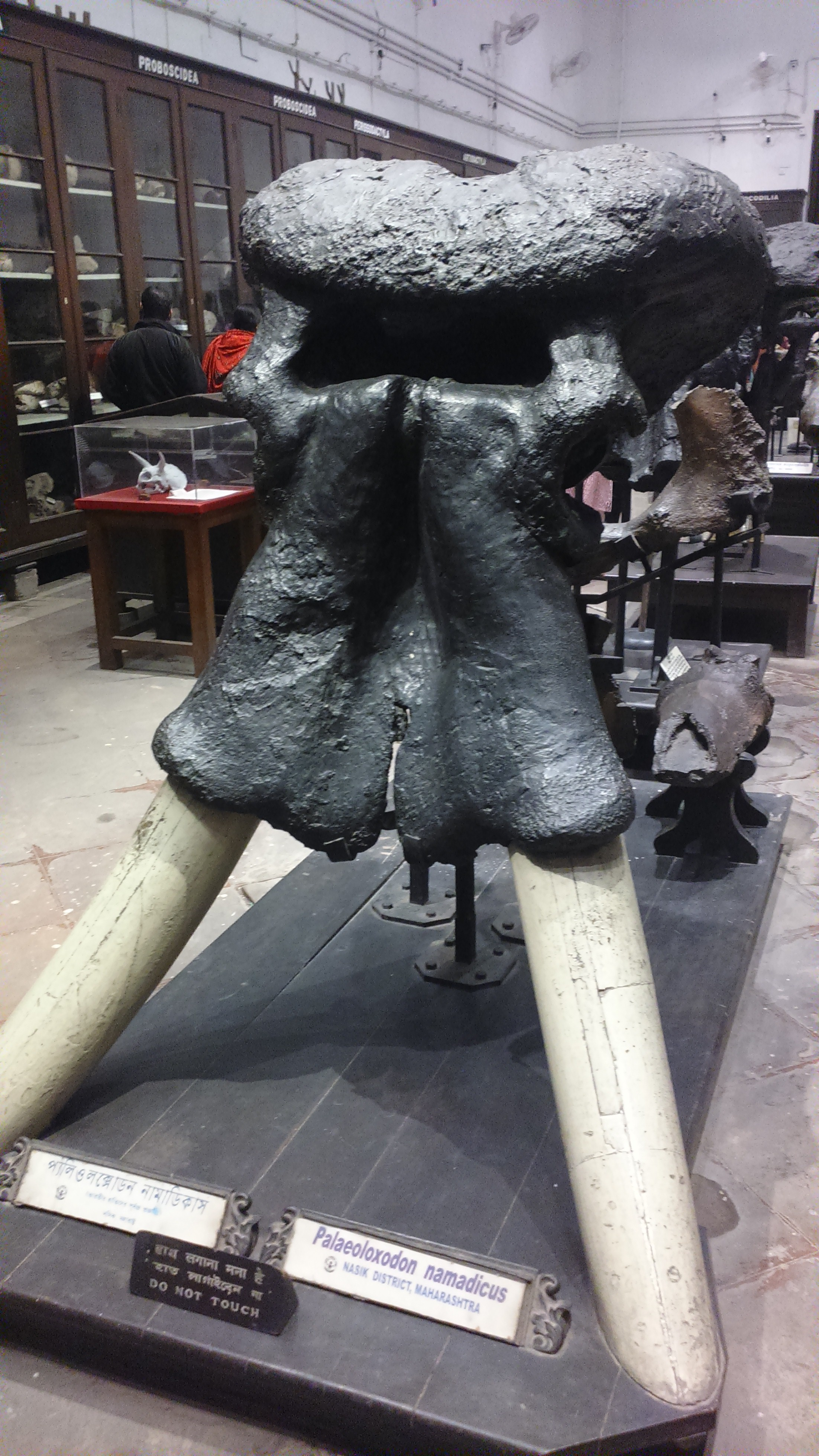 Palaeoloxodon namadicus in Indian Museum, Kolkata, India